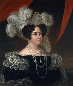 Queen Desideria of Sweden and Norway